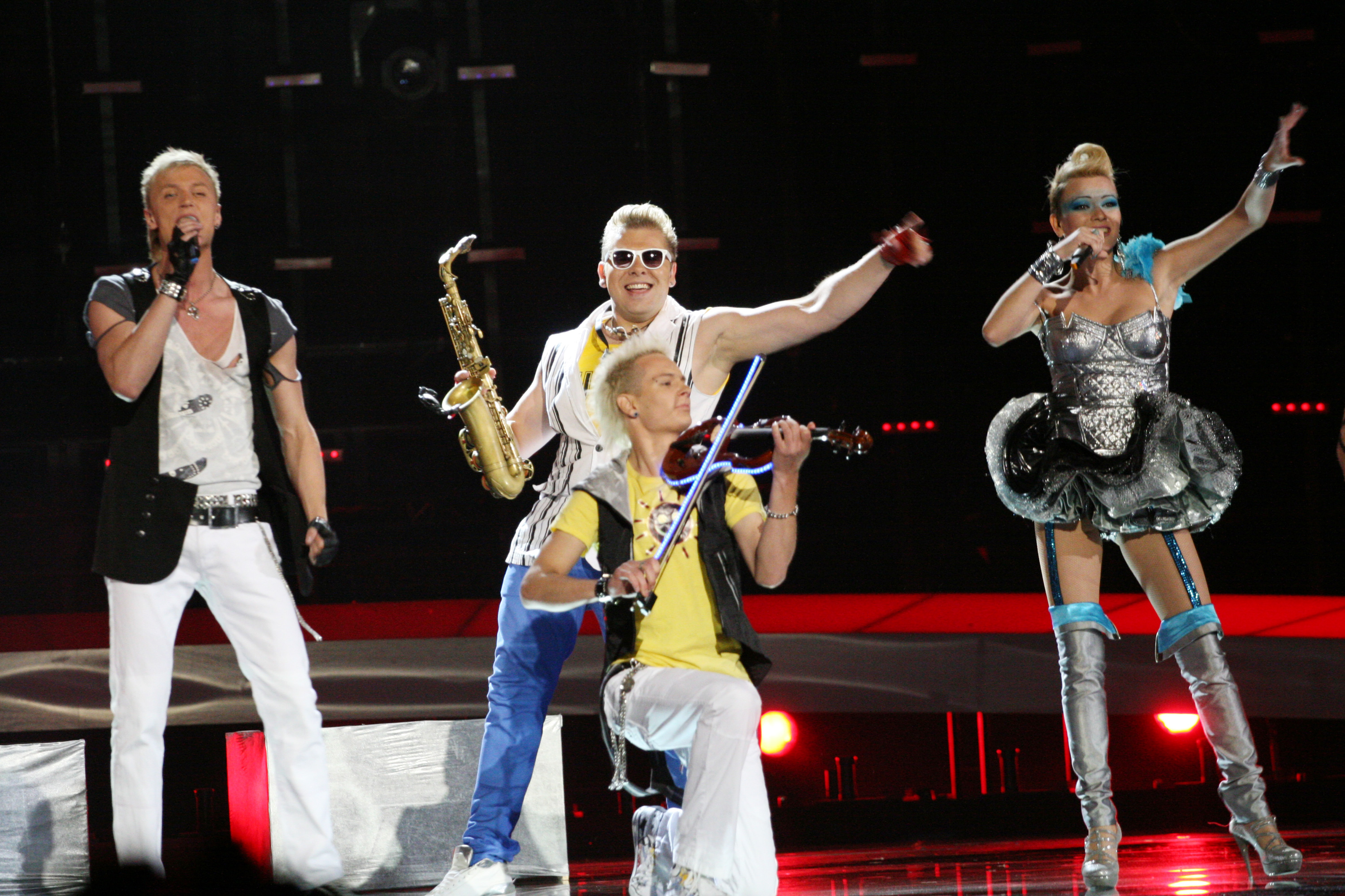 Sunstroke Project & Olia Tira at Eurovision Song Contest Oslo 2010 Foto: Erik F. Brandsborg